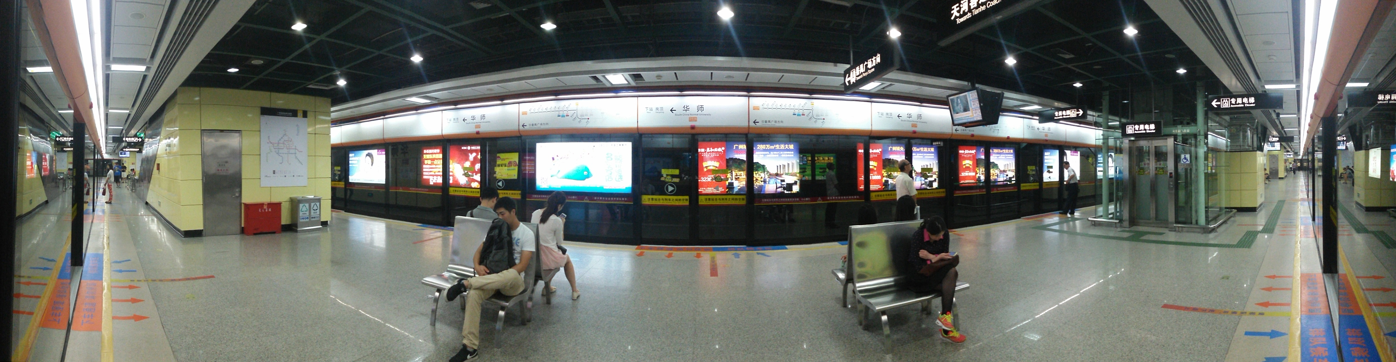 FULL SIGHT of Platform for South China Normal University Station in Guangzhou Metro